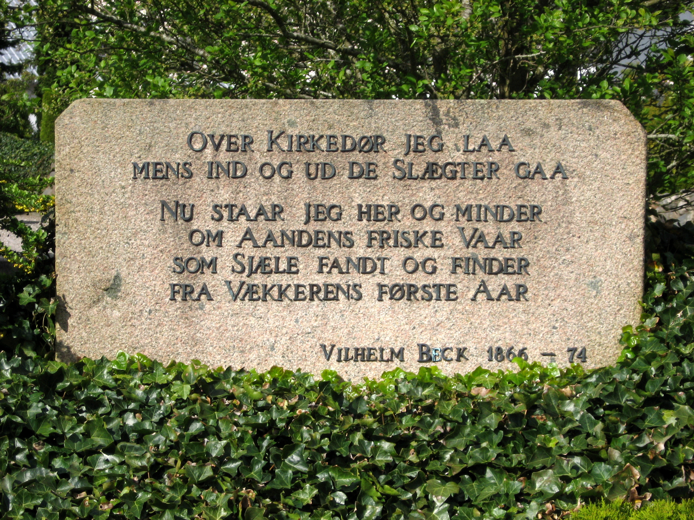 Ørum Kirke in Ørum Sogn in Nørre Djurs Kommune on Djursland, Denmark. Memorial northwest of the church, in front of the rectory, for parish priest Vilhelm Beck (1828-1901), who was the parish priest 1866-74.